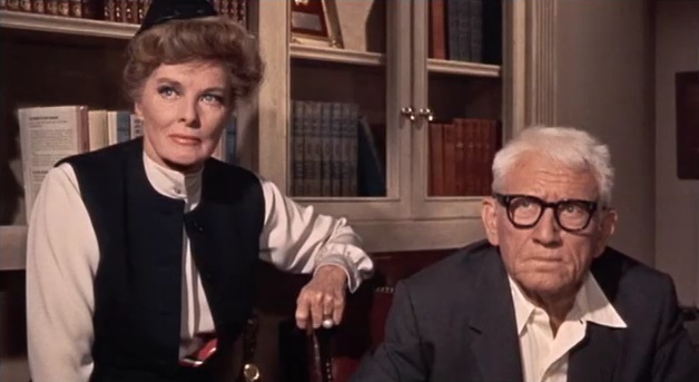 Screenshot of Katharine Hepburn and Spencer Tracy in the trailer for the film Guess Who's Coming to Dinner (1967).